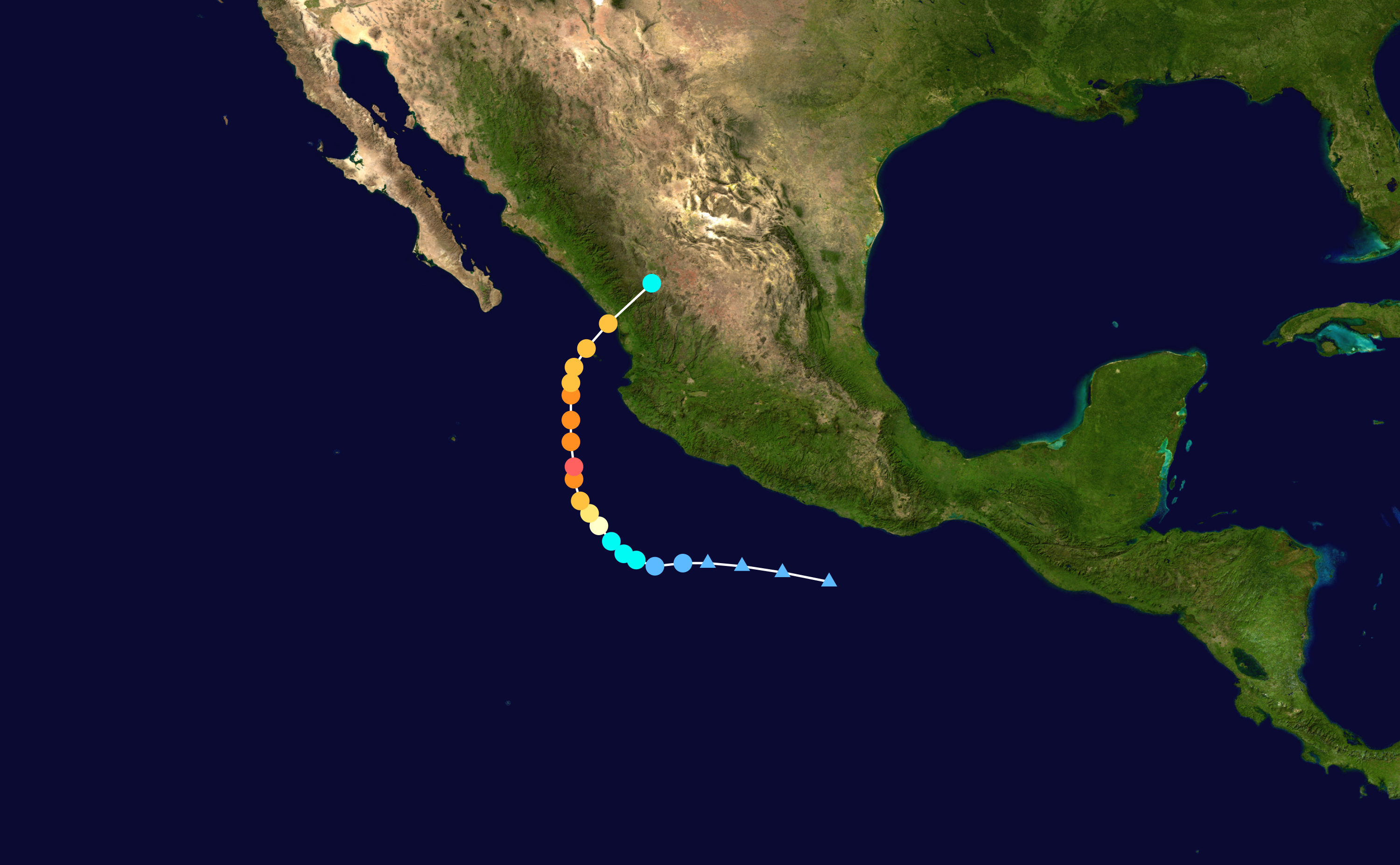 Track map of Hurricane Willa of the 2018 Pacific hurricane season. The points show the location of the storm at 6-hour intervals. The colour represents the storm's maximum sustained wind speeds as classified in the Saffir–Simpson scale (see below), and the shape of the data points represent the nature of the storm, according to the legend below. Saffir–Simpson scale Tropical depression≤38 mph≤62 km/h Category 3111–129 mph178–208 km/h Tropical storm39–73 mph63–118 km/h Category 4130–156 mph209–251 km/h Category 174–95 mph119–153 km/h Category 5≥157 mph≥252 km/h Category 296–110 mph154–177 km/h Unknown Storm type Tropical cyclone Subtropical cyclone Extratropical cyclone / Remnant low / Tropical disturbance / Monsoon depression